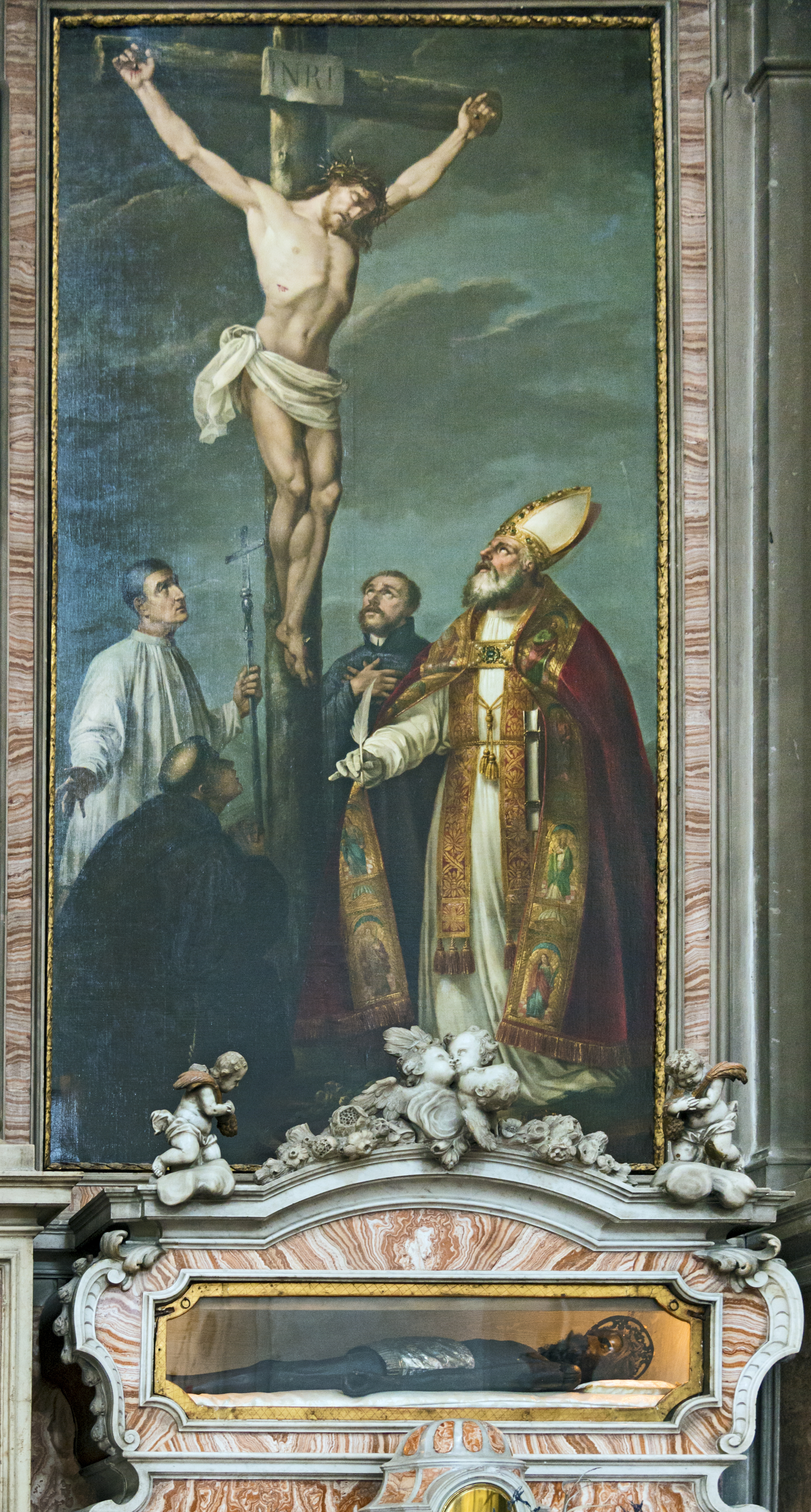 "Christ crucified between Ss. Augustine, Lawrence Giustiniani, Anthony of Padua, and Saint Cajetan" by Sebastiano Santi San Geremia, Venice